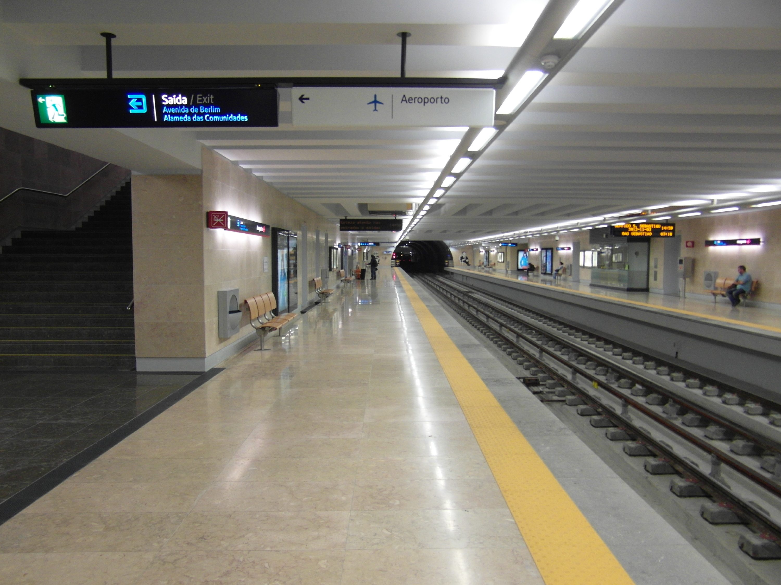 Aeroporto underground station of the Lisbon Metro, Lisbon, Portugal